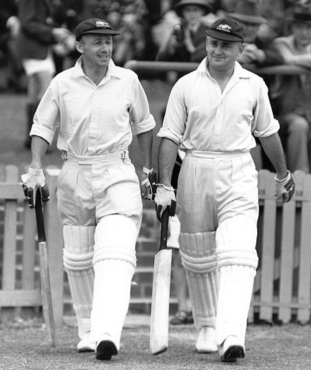 Australian cricketers Sir Don Bradman (left, 1908 - 2001), and Stan McCabe going out on the field to bat. Sir Donald Bradman was the first cricketer to be knighted in 1949 for his services to cricket.